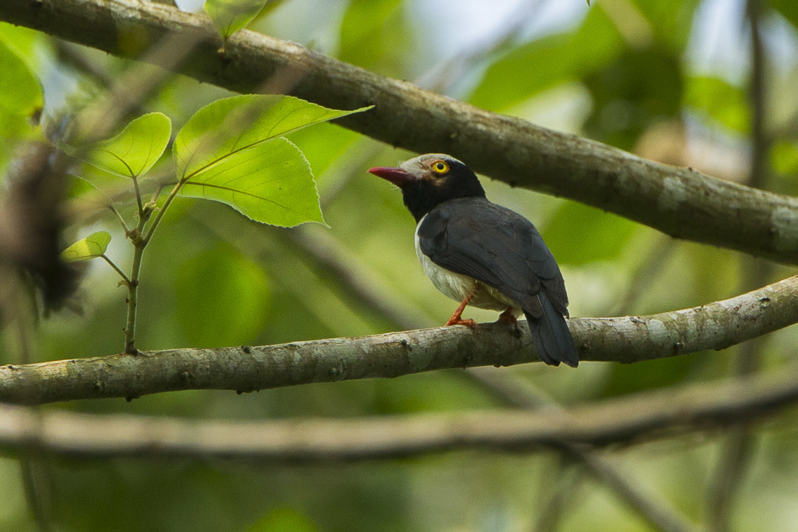 A Red-billed Helmetshrike (Prionops caniceps) in the Bobiri Forst Reserve (Ghana)